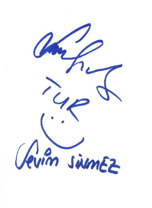 Signature of Turkish athlete Sevim Sinmez Serbest